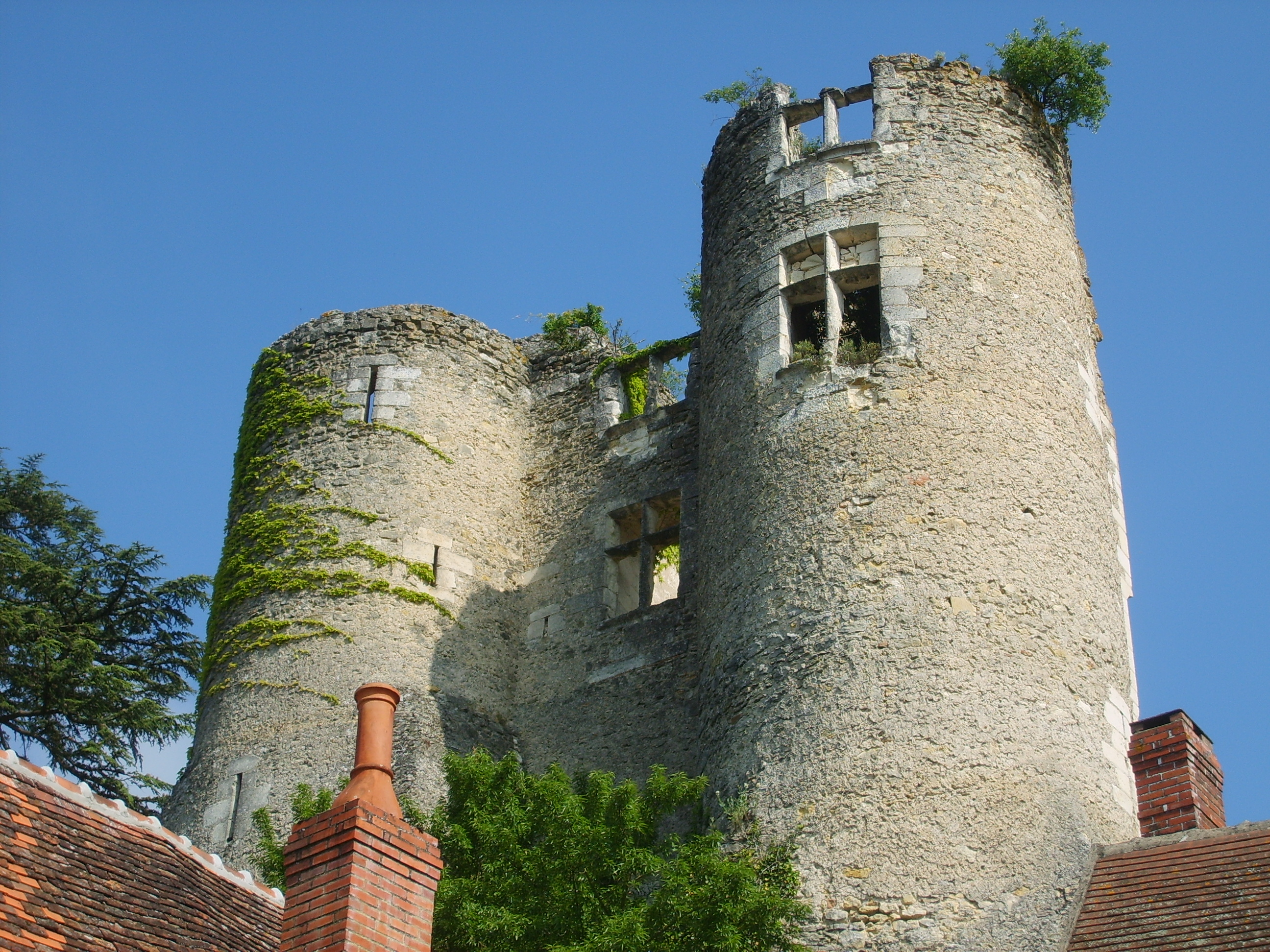 Montrésor en Indre-et-Loire, en France. Publish by= User:Stephane8888 Self made